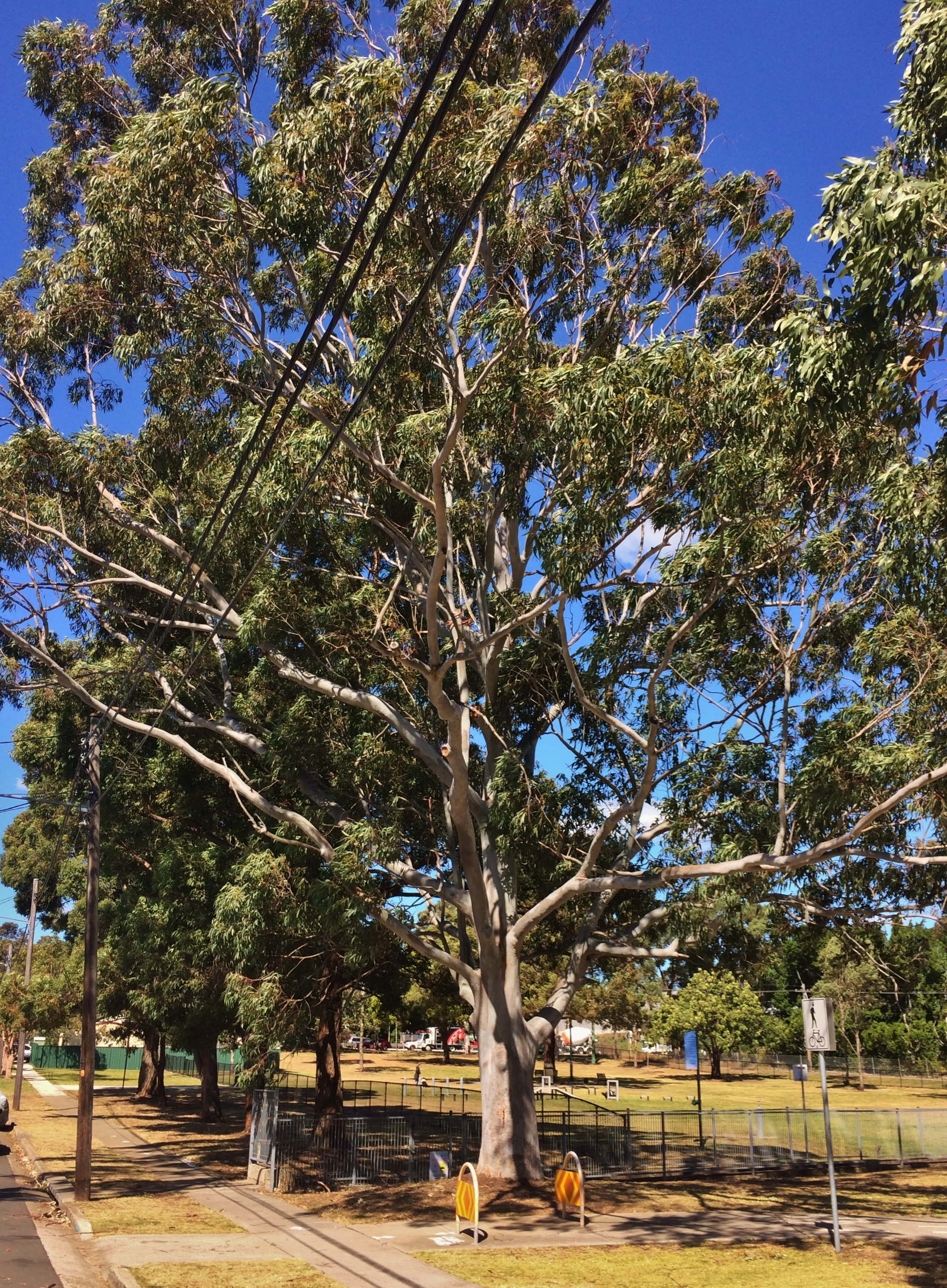 Eucalyptus propinqua (small-fruited grey gum) in parkland, Silverwater NSW